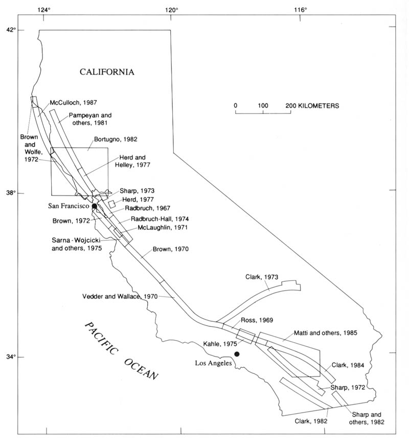 Index map of California, showing locations of selected maps of surface traces of the San Andreas fault system